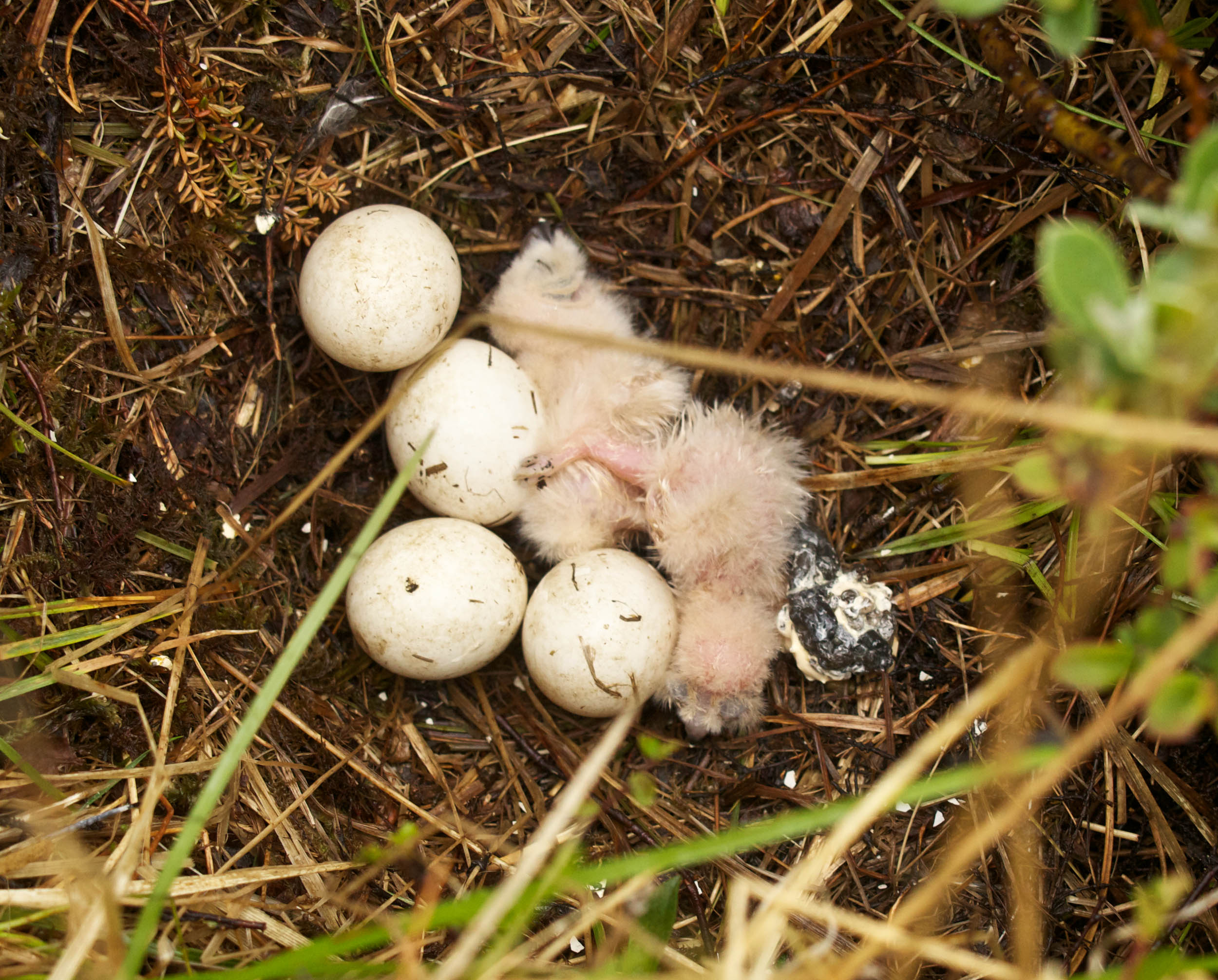 Brandugla Asio flammeus Short-eared Owl, newly-hatched nestlings and eggs, Iceland.